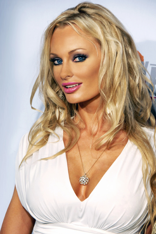 Sophie Turner at the Fox Reality Channel's Really Awards on September 13, 2009 - Photo by Glenn Francis of